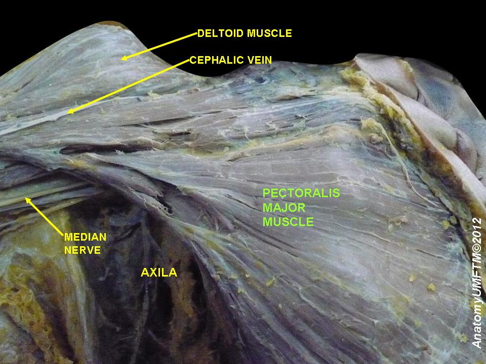 Anatomical dissections